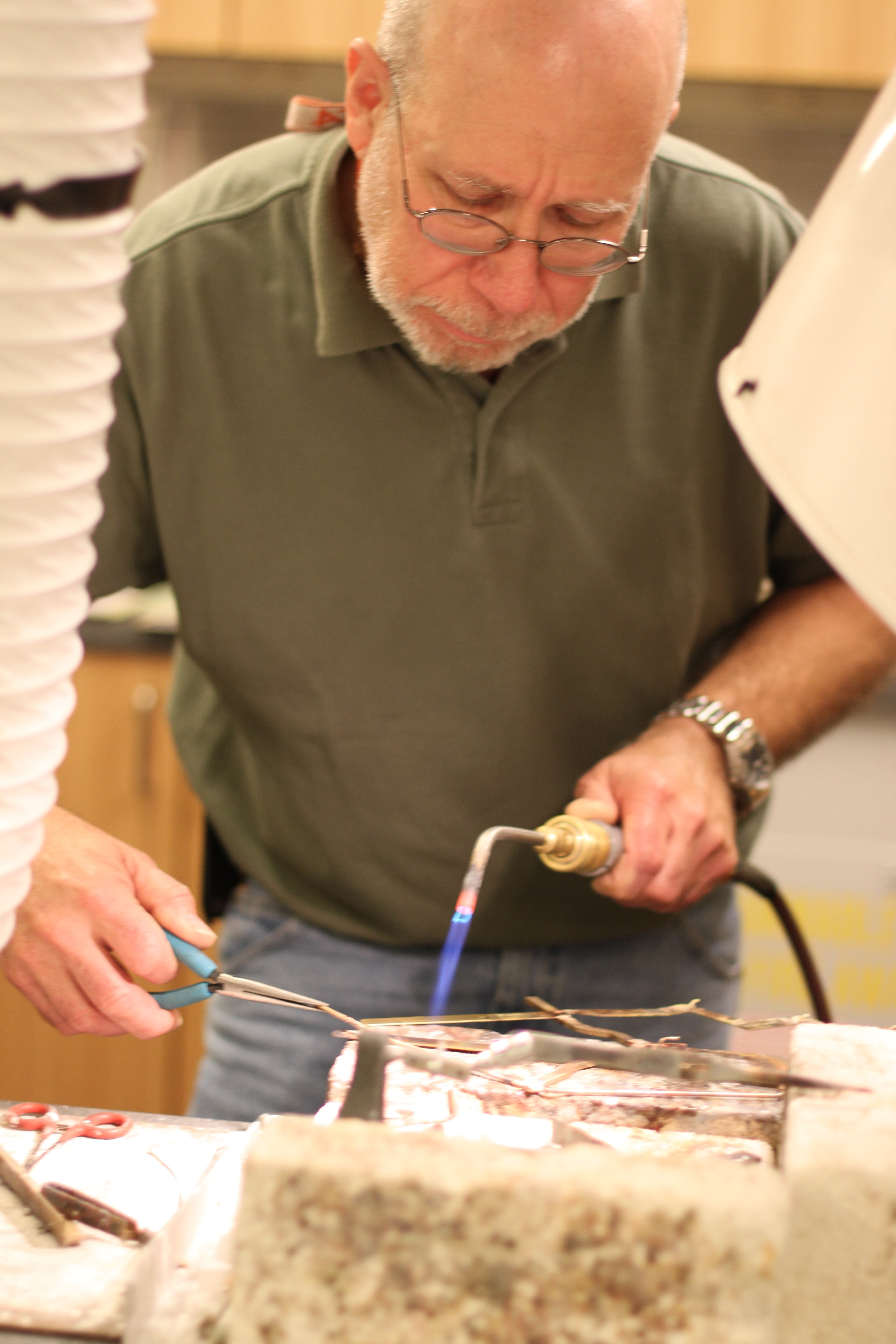 Frame conservator welding